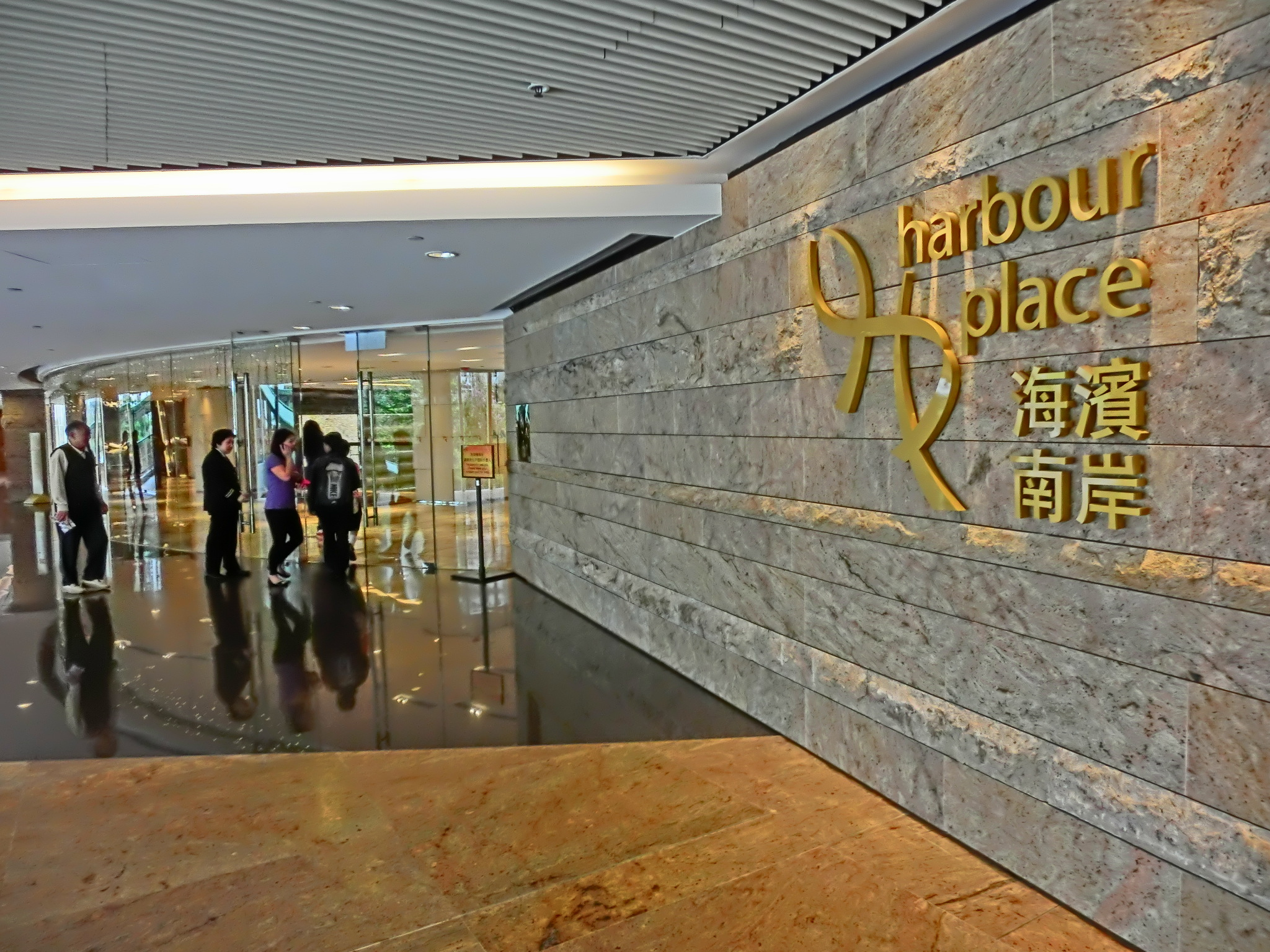 紅磡海濱南岸, Harbour Place, Yan Yun Street, Hung Hom, Hong Kong